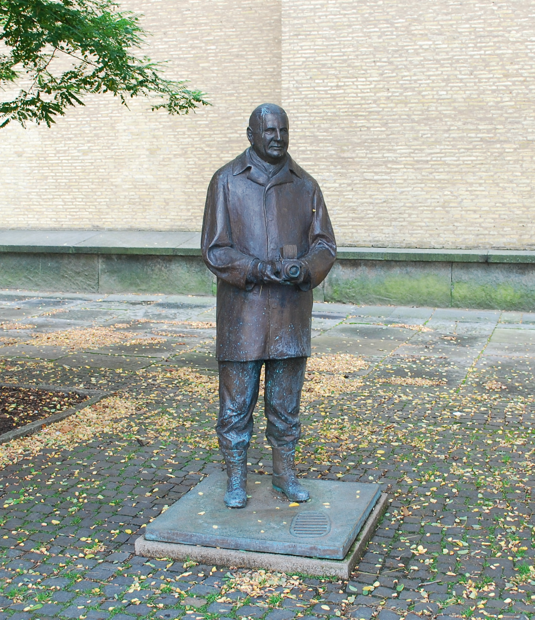 Victor Hasselblad. Statue by the Swedish sculptor Ulf Celén at Götaplatsen, Göteborg. Unveiled by the former NASA astronaut Harrison H. Schmitt March 8th 2006, on the centenary of Hasselblad's birth